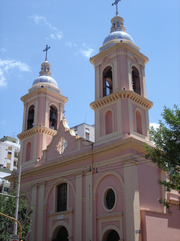 Church in Córdoba, Argentina